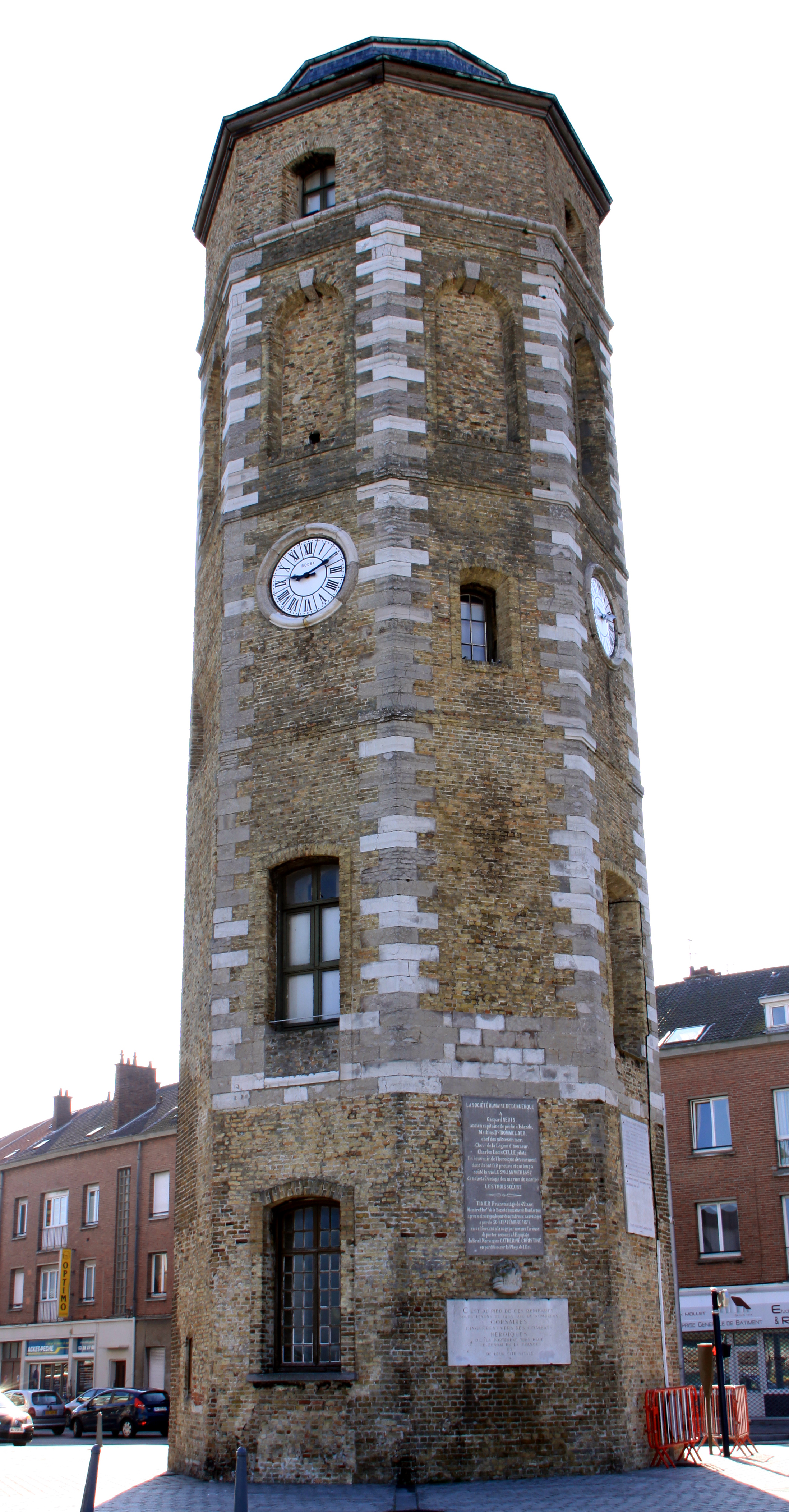 Dunkerque Tour du Leughenaer